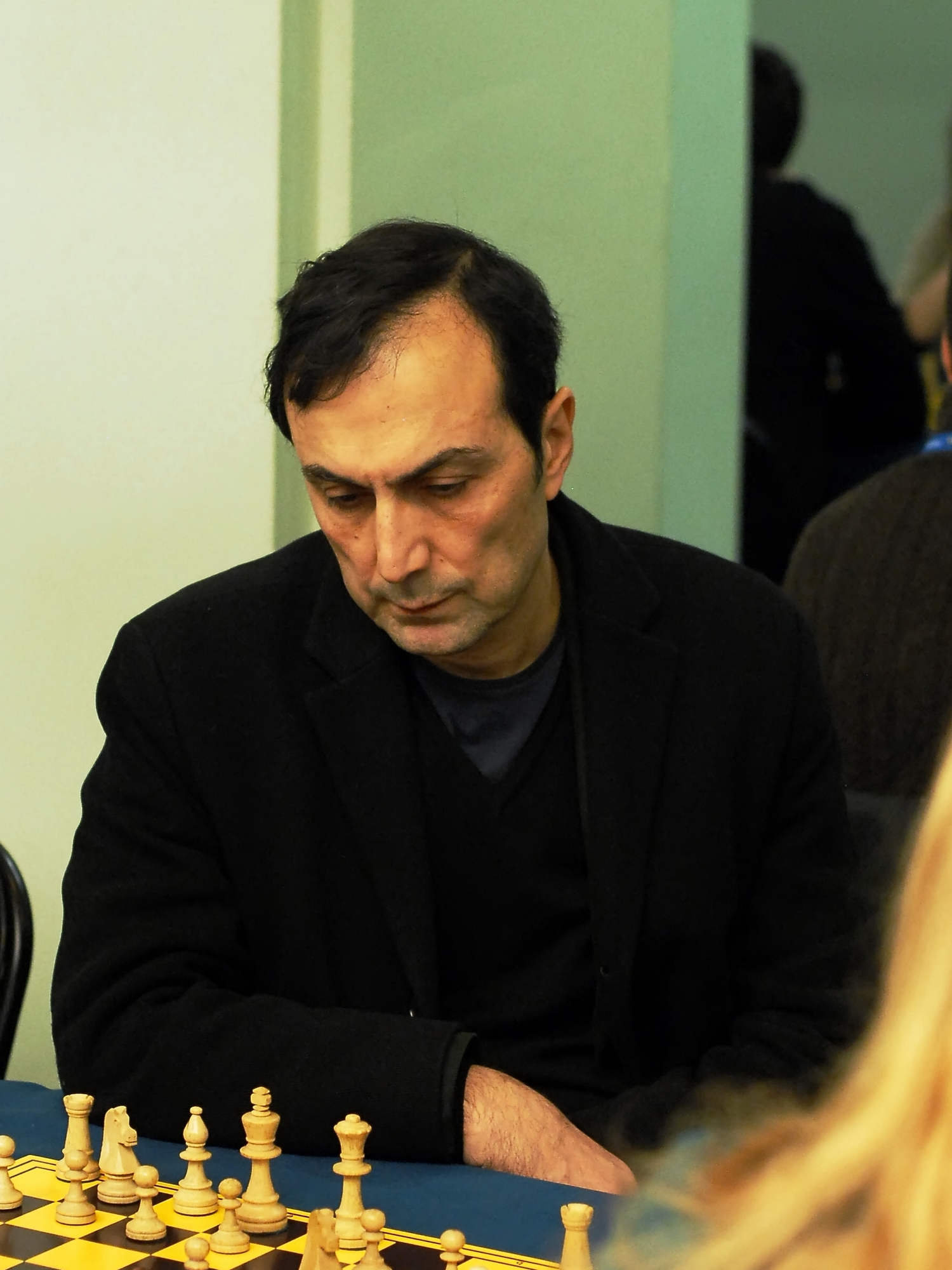 IM Kamran Shirazi, European Rapid Chess Championship, Warsaw 2012.